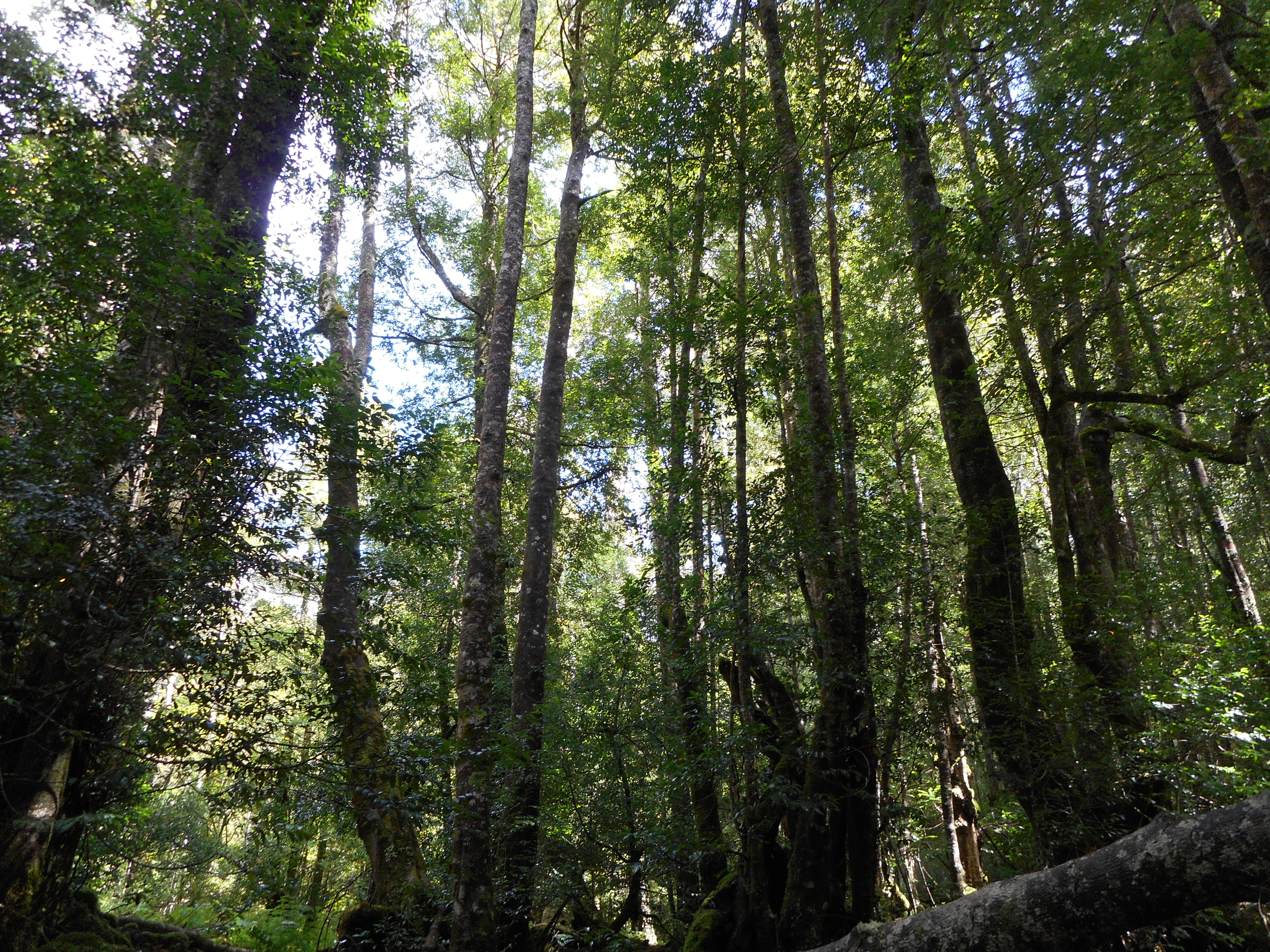 Typical wet sclerophyll forest in Mt Field National Park, Tasmania, Australia, where celerytop pine is found.